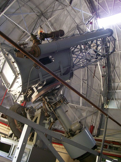 Linden Observatory Complex: 30